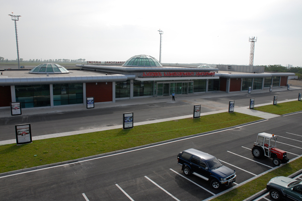 batumi airport